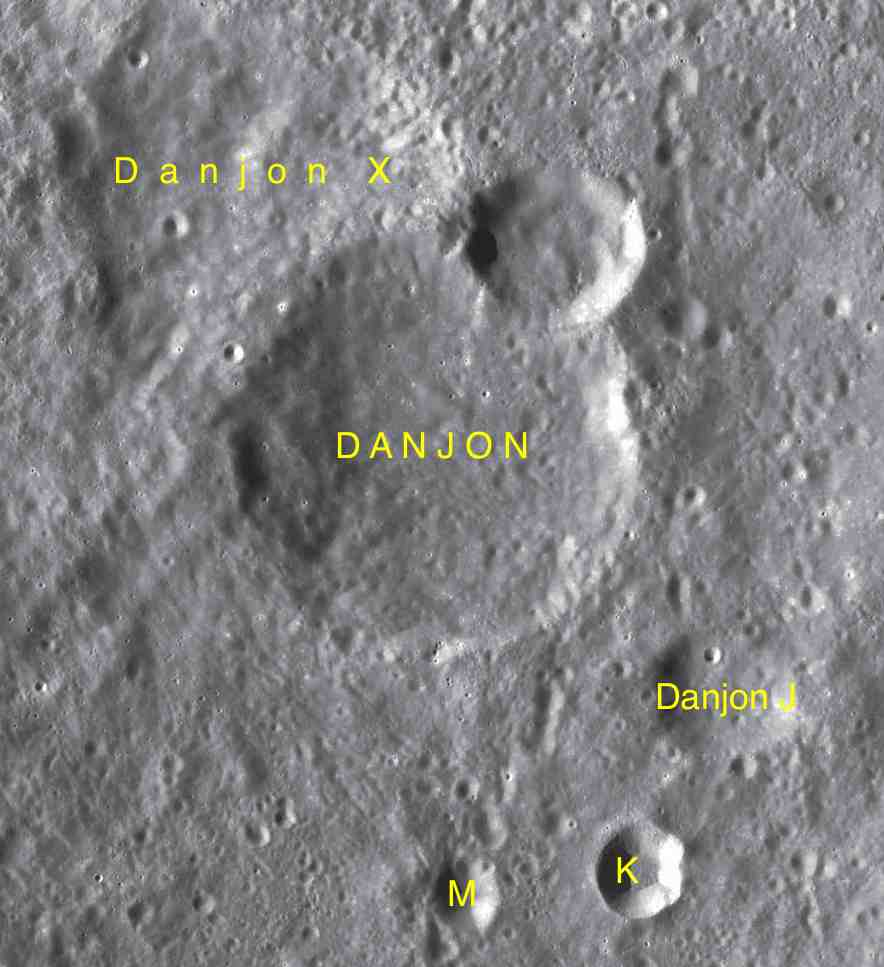 Part of the chart LAC-83 used for the presentation